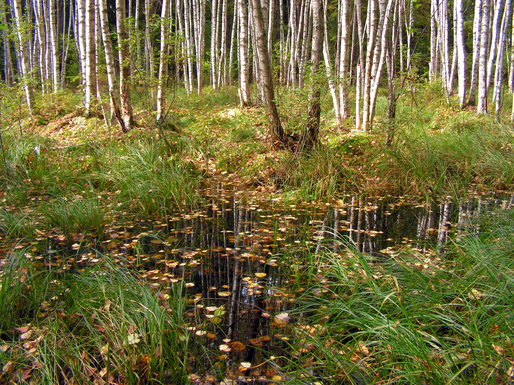 The birch bog. Moscow region, Russia.